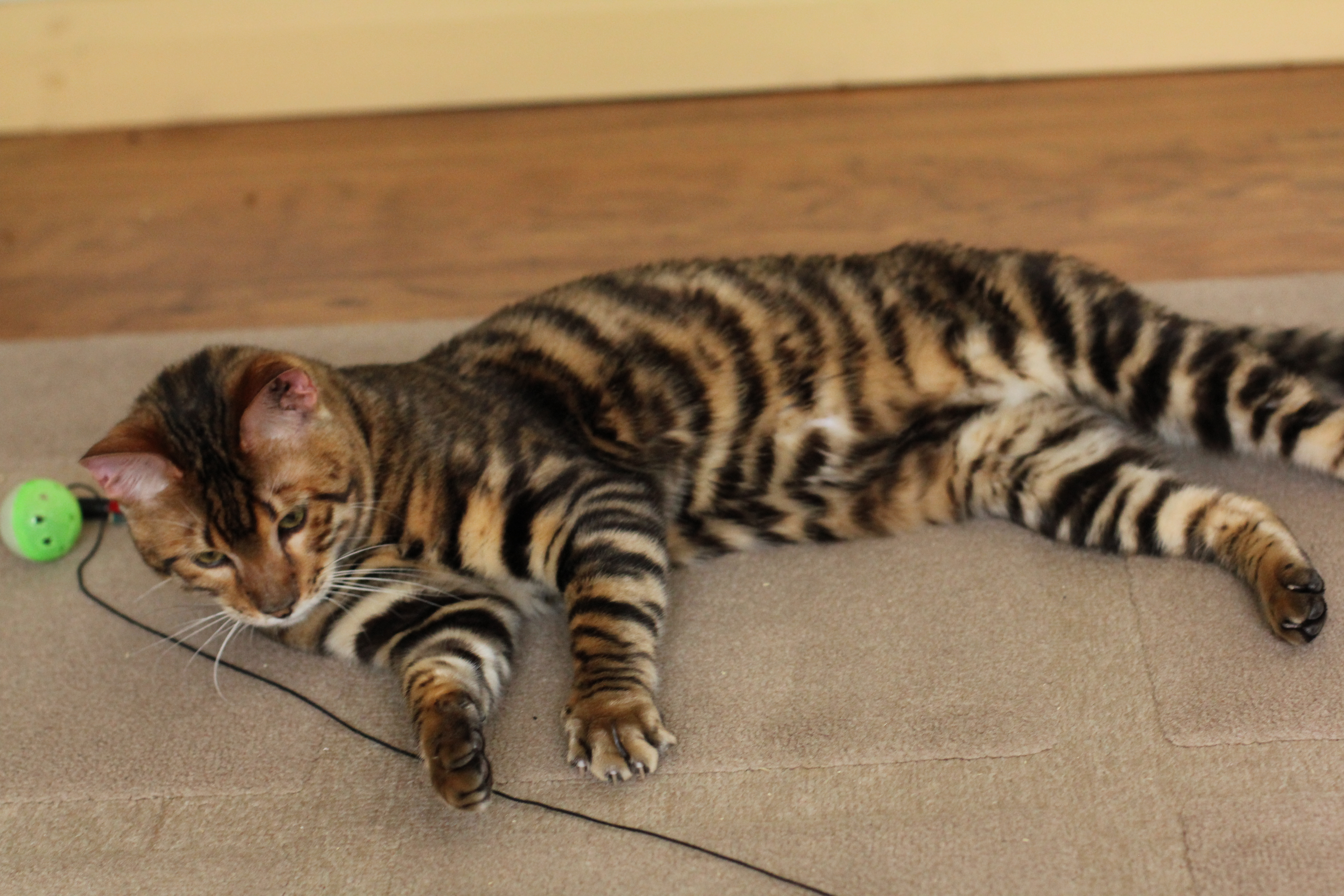 Toyger cat